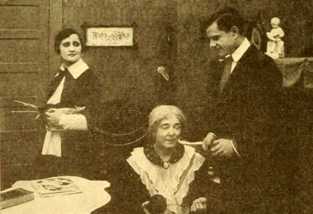 Still from the American film Faith (1919) with Rosemary Theby, Edythe Chapman, and Bert Lytell, on page 476 of the January 25, 1919 Moving Picture World.